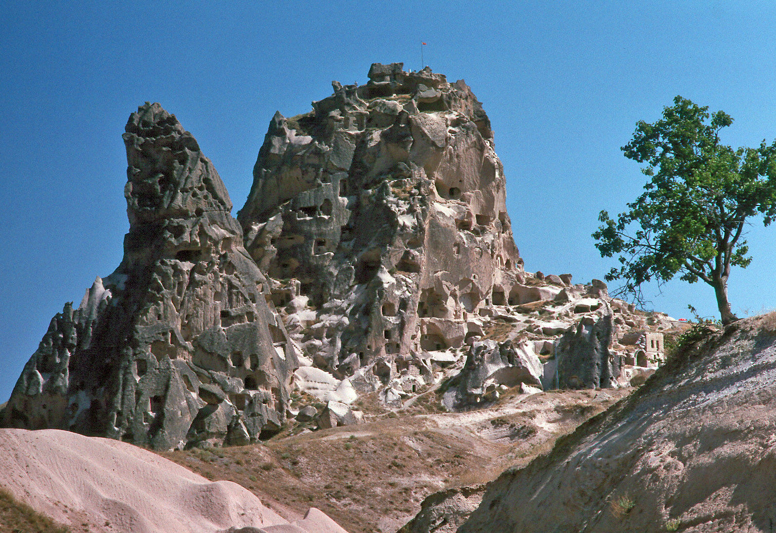 Houses cut into the rock near Göreme it is Uçhisar (Turkey).